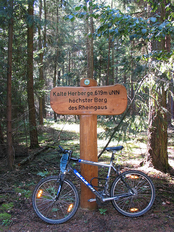 Kalte Herberge, highest mountain of Rheingau, Hessen, Deutschland (Germany)